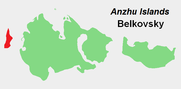 Location map